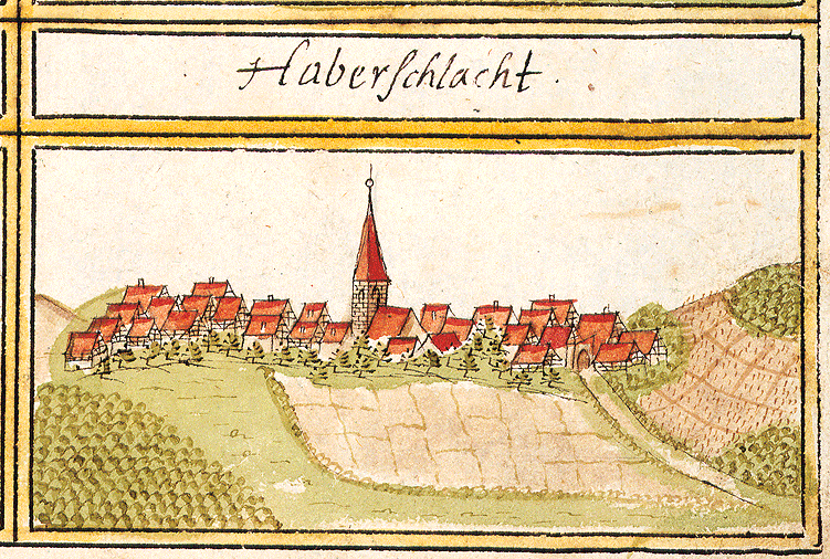 View of Haberschlacht, Brackenheim, from the forest register books created by Andreas Kieser